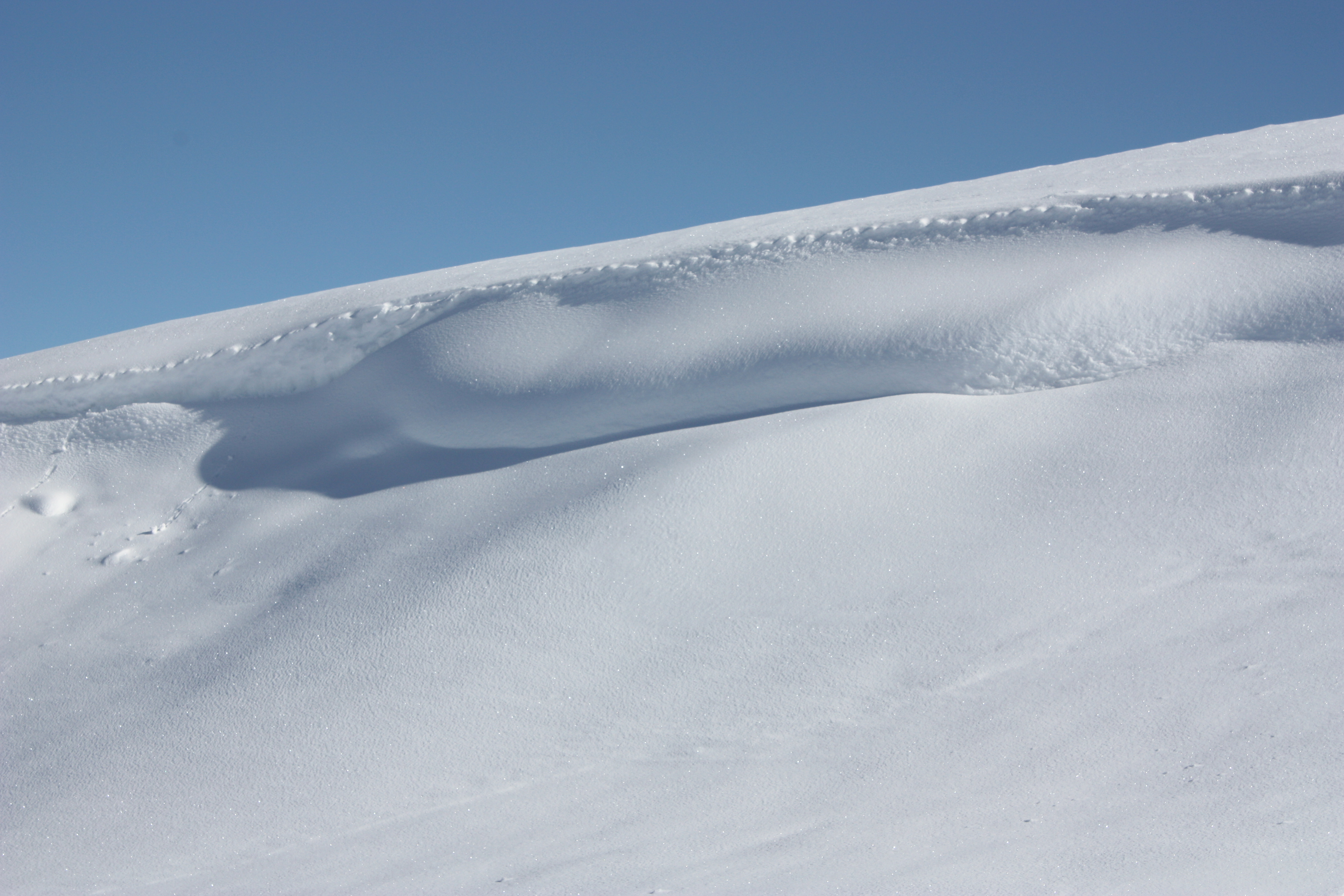 Windy Hill Muirshiel country park Snow cornice at the top of Windy Hill